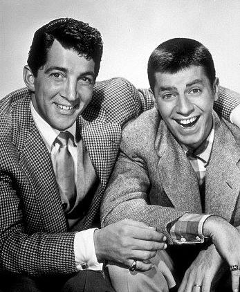 Studio publicity photo of Jerry Lewis and Dean Martin.